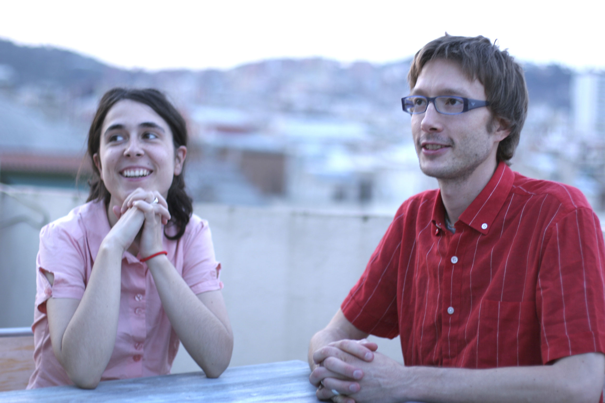 taken in Barcelona, Spain at their apartment.